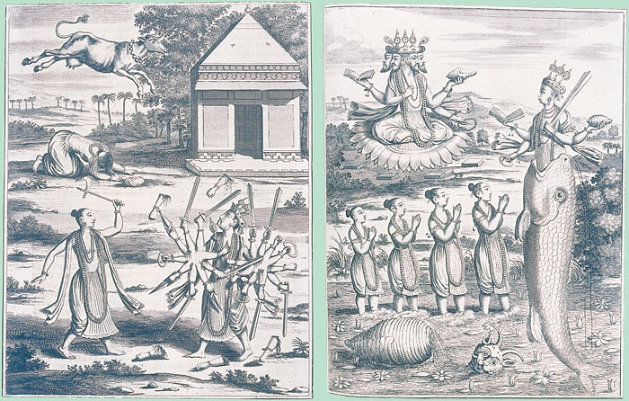 Philippus Baldaeus’s 17th-century account of Ceylon and the Malabar and Coromandel coasts of India included cultural as well as geographical information. His depictions of episodes from Hindu mythology were almost certainly based on Indian originals. Baldaeus spent the years 1658 to 1665 in Ceylon, and his extensive and factual account contributed to Europeans’ understanding that eastern civilizations had literary and iconographic traditions as complex and sophisticated as those of the western world. CAMBRIDGE UNIVERSITY LIBRARY (BALDAEUS, NAAUKEURIGE BESCHRYVINGE…, 1672